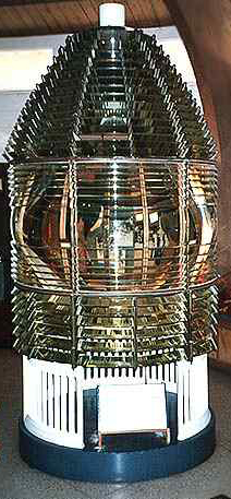 Fresnel light/lens which was removed from the decommissioned Sand Island Lighthouse.